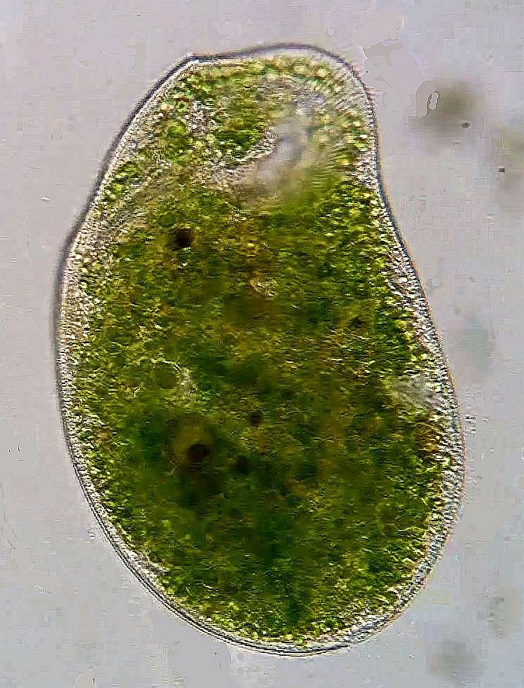 Climacostomum virens, collected from Turtle Pond in Wakefield, Quebec.